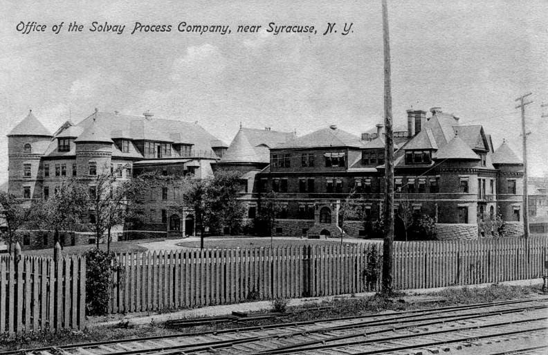 Solvay Process Company office building (Douglas Smyth, architect)